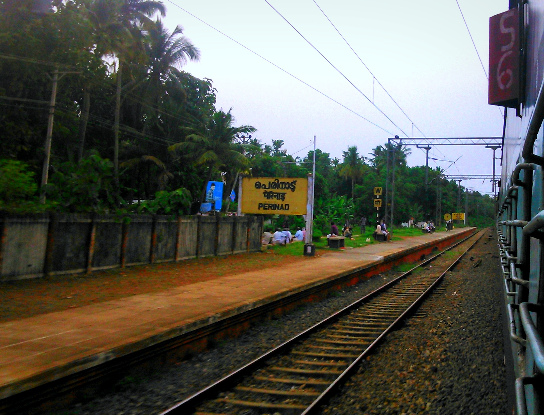 Perinad railway station is situated at Kollam district - The district with maximum number of railway stations in Kerala